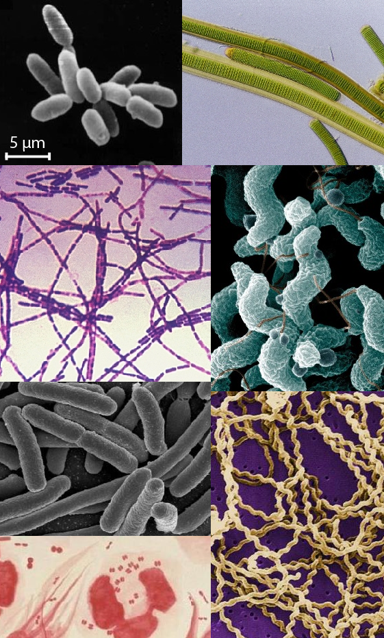 Collage of prokaryotic organisms: archaea, cyanobacteria, gram (+) bacillus, campylobacteria, enterobacteria, diplococcus and spirochete.